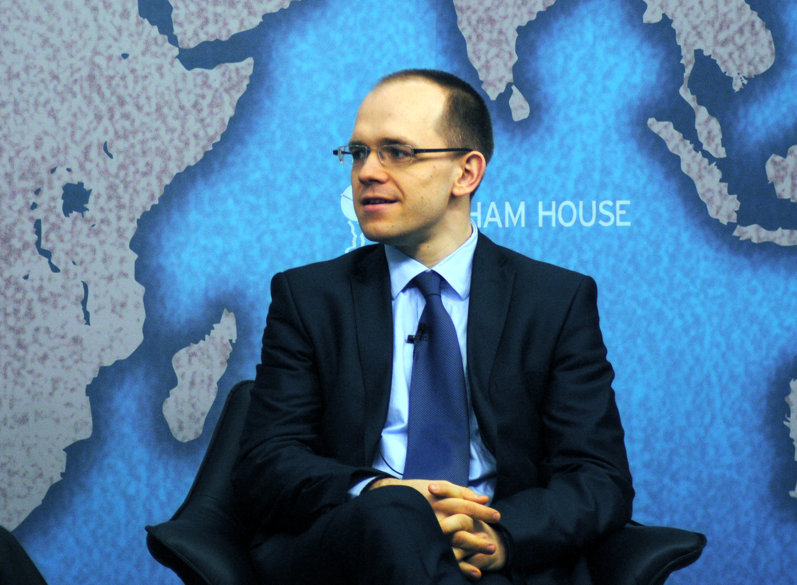 The Limits of Technology in an Imperfect World, 18 March 2013 cht.hm/XUor2a